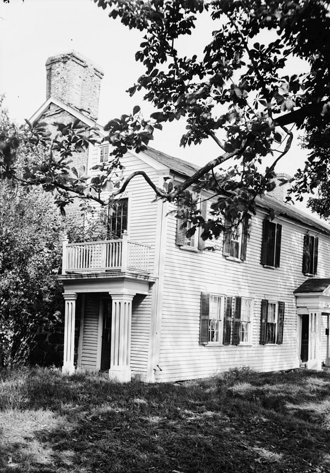 Josepeh Smith House, North Providence, Rhode Island, USA